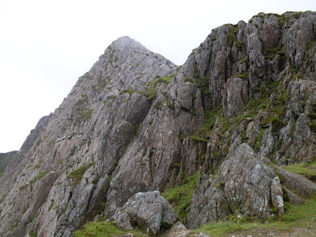 On the ascent of Y Lliwedd